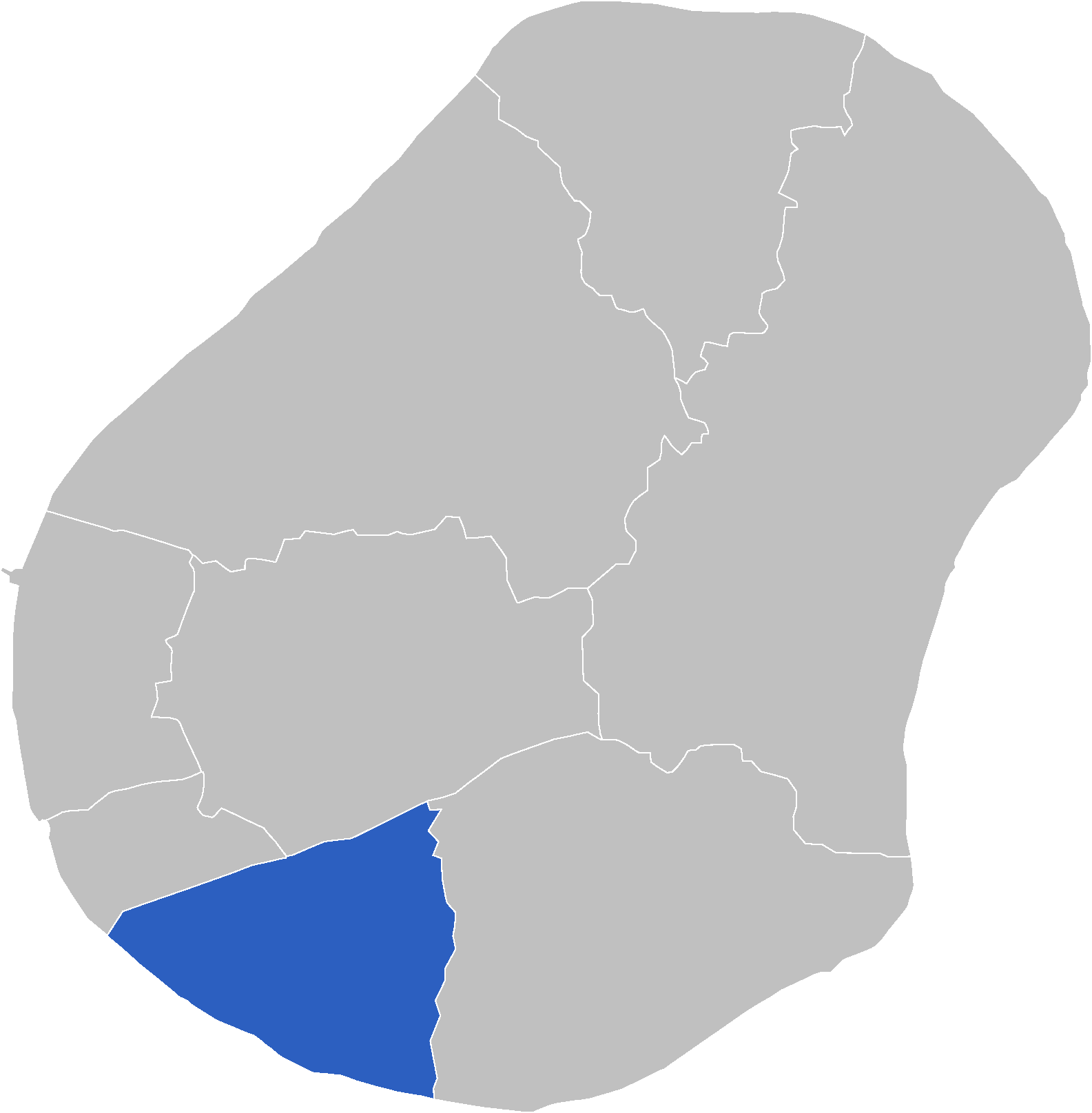 Location map of Yaren constituency, Nauru